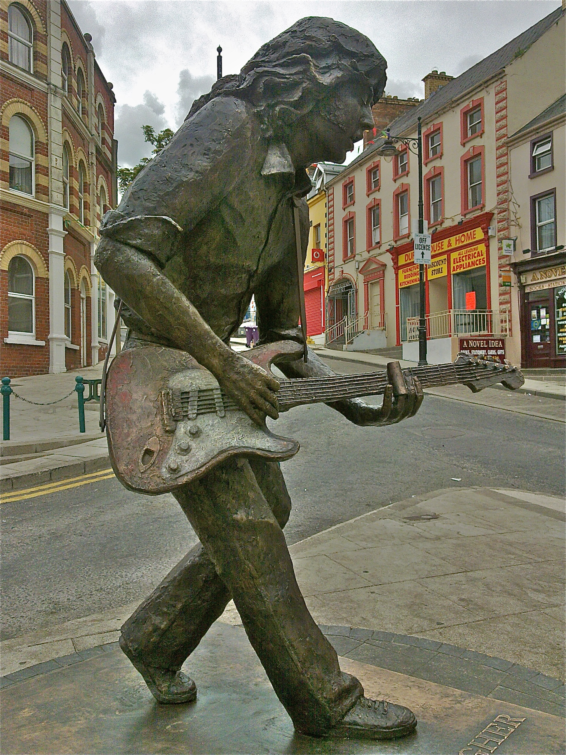 Statue commemorating the work of Rory Gallagher unveiled at the 2010 Rory Gallagher Festival in Ballyshannon, County Donegal.